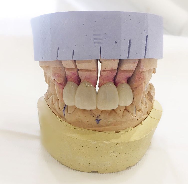 Fabrication of Emax crowns on the upper four anterior teeth.